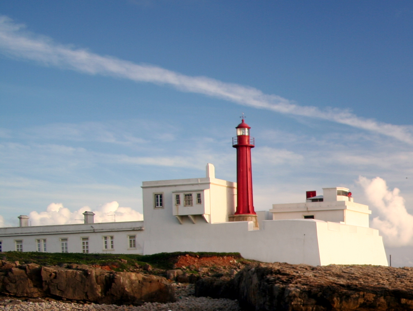 Cabo Raso Lighthouse, in São Brás de Sanxete Fort, Cascais municipality, Lisbon district, Portugal